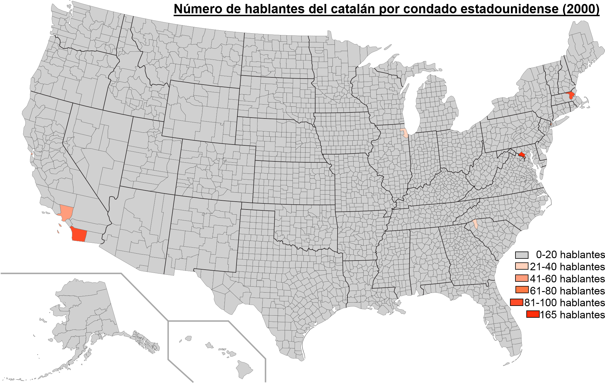 Map of the United States by county with the number of speakers of the Catalan language according to the 2000 United States Census.